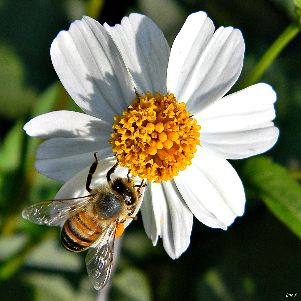 I forgot my ruler but the diameter of this Spanish needle blossom is approximately 2.5 honey bees.